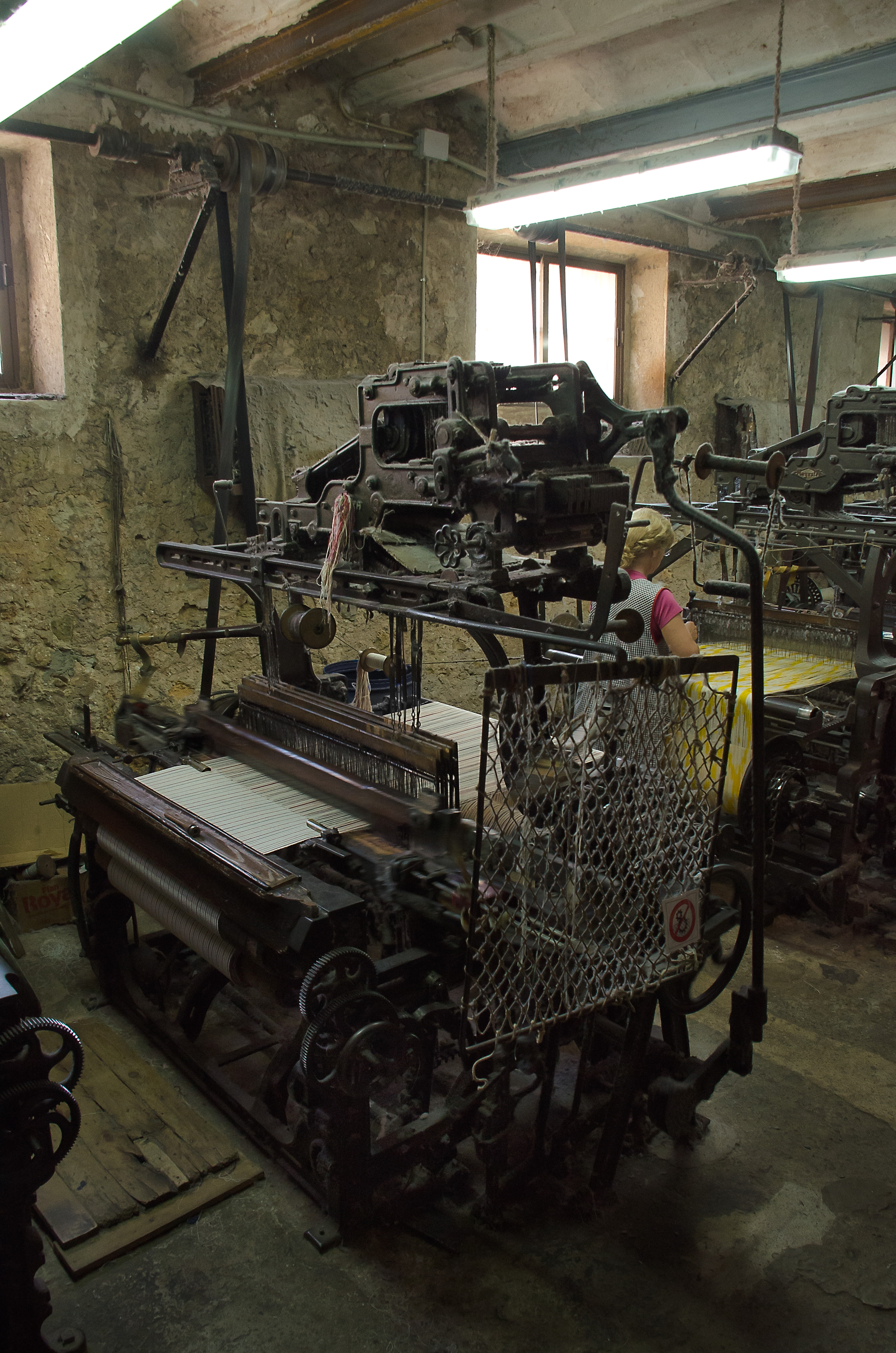 Looms in a weaving mill in Santa Maria del Camí, Mallorca, driven by a line shaft